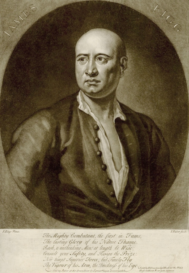 James Figg, mezzotint, 13 3/8 in. x 9 1/2 in. (339 mm x 241 mm) paper size